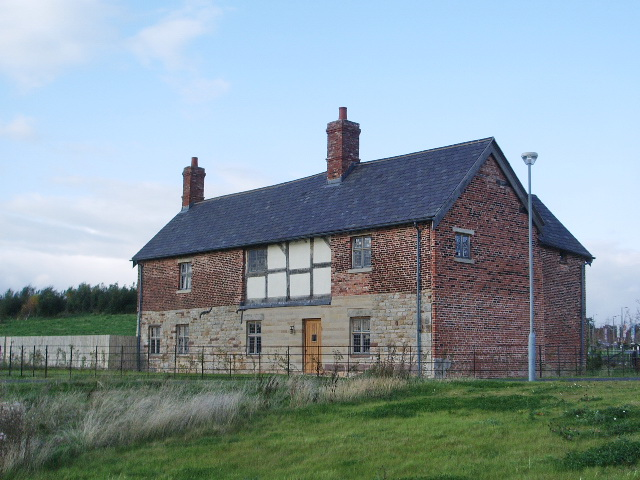 Old Worden Hall. Well I don't think you would get planning permission in this day and age to build a house like this. If you use the link it will take you to Martin Stockdale's photo of the start of the refurbishment. 18575